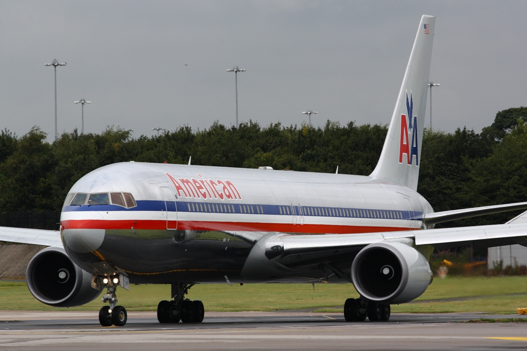 Boeing 767-323ER of American Airlines lining up on runway 23R at Manchester.